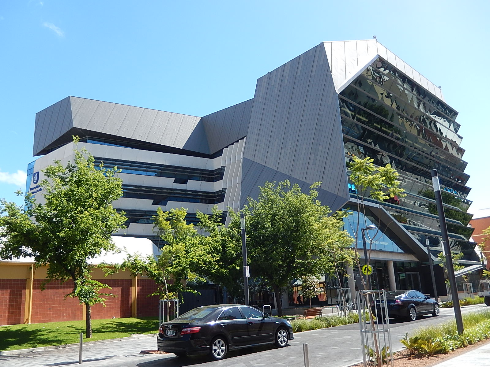 University of South Australia contemporary building